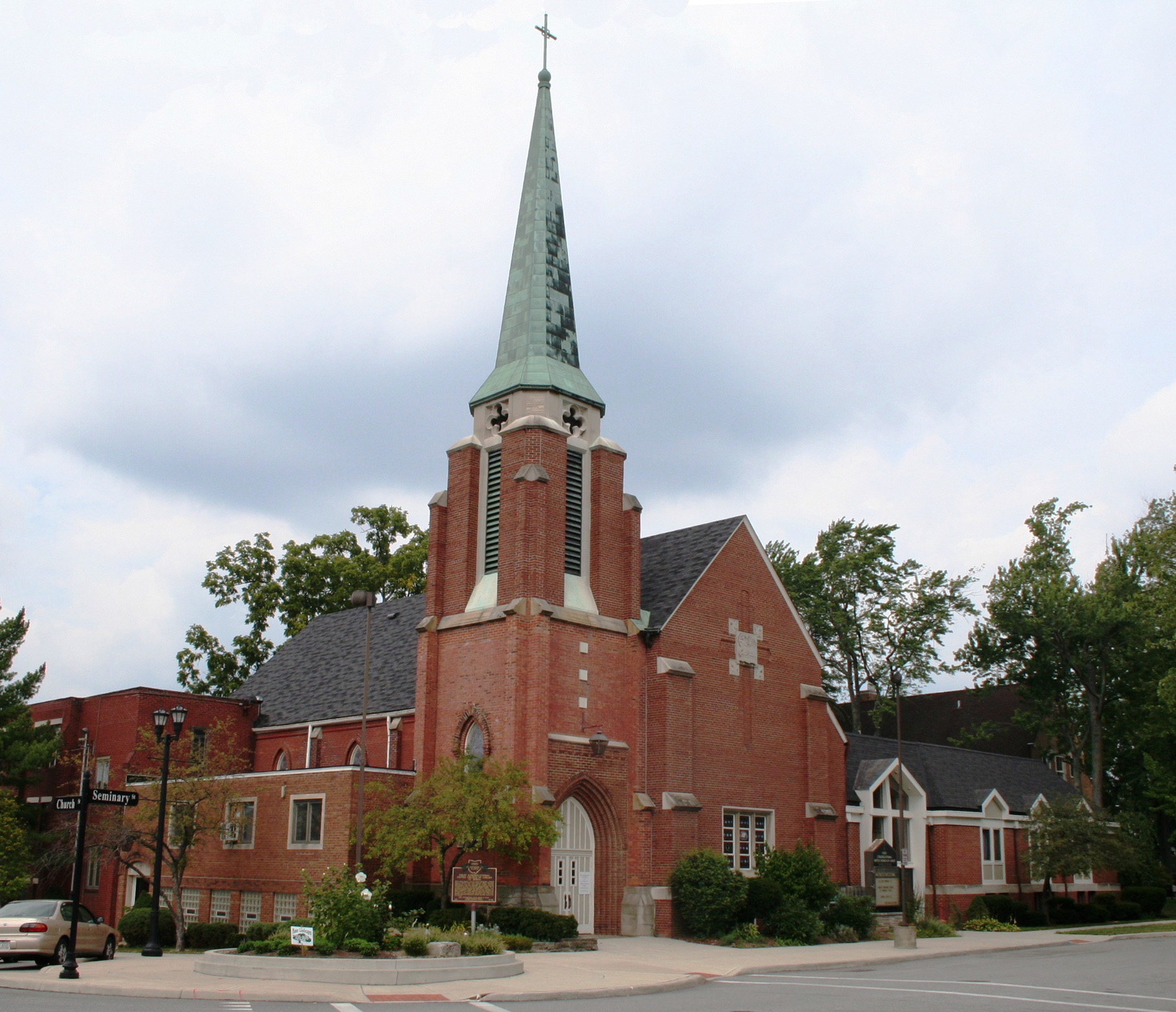 Berea-First Congregational Church Conservatory of Music Annex (OHPTC) in 2009 the church became part of Baldwin-Wallace College